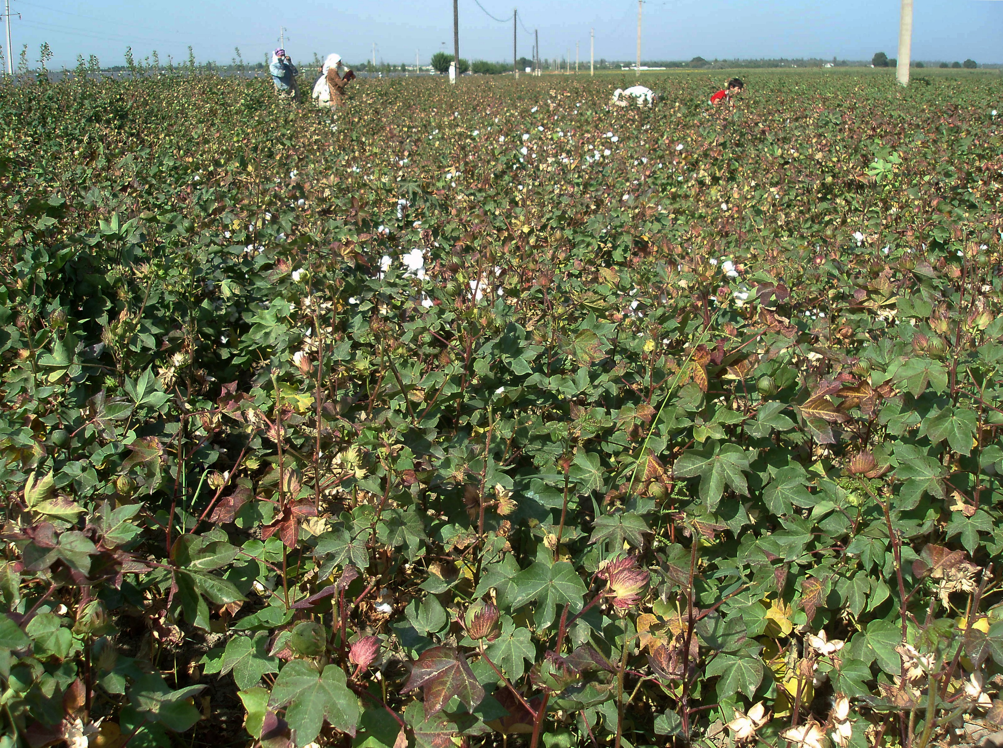 Cotton field in the Uzbek part of the Ferghana Valley, in the west of Ferghana city